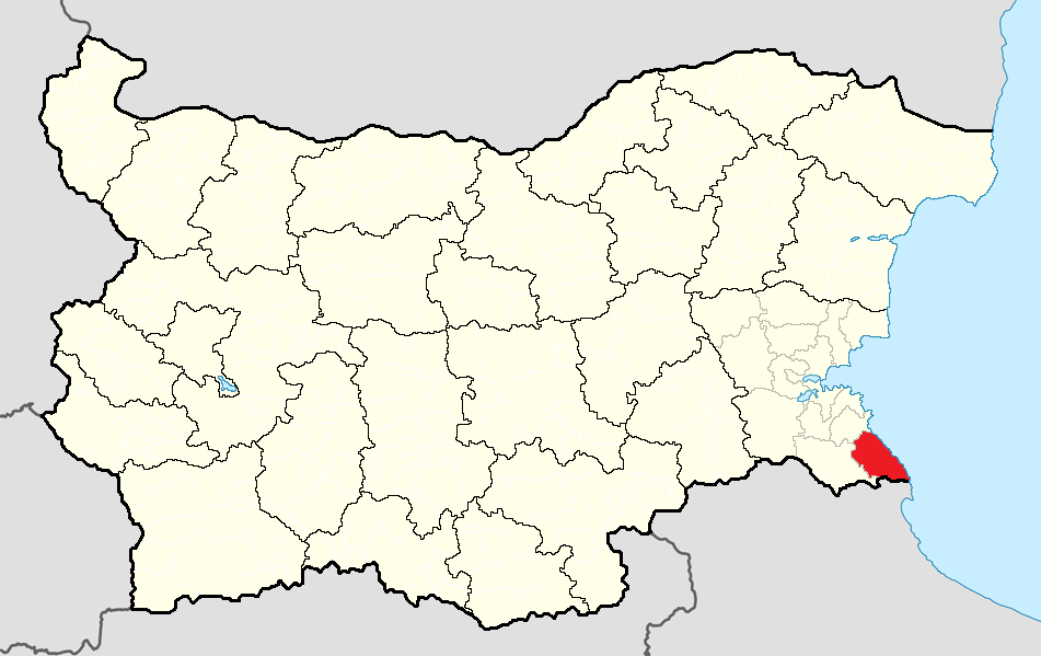 Location map of Tsarevo Municipality within Bulgaria and Burgas Province Equirectangular projection, N/S stretching 130 %. Geographic limits of the map: N: 44.4° N S: 41.1° N W: 22.1° E E: 28.9° E